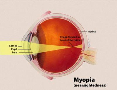 Diagram of Myopia in the human eye